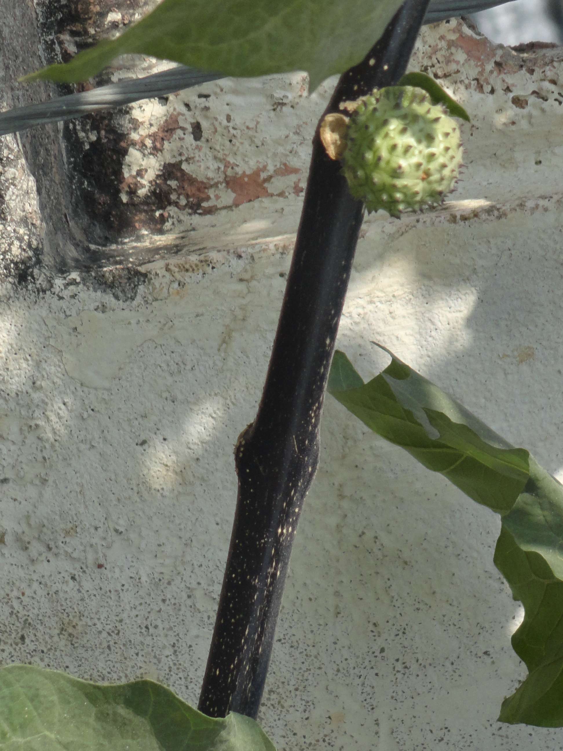 నల్ల ఉమ్మెత్త కాయ.